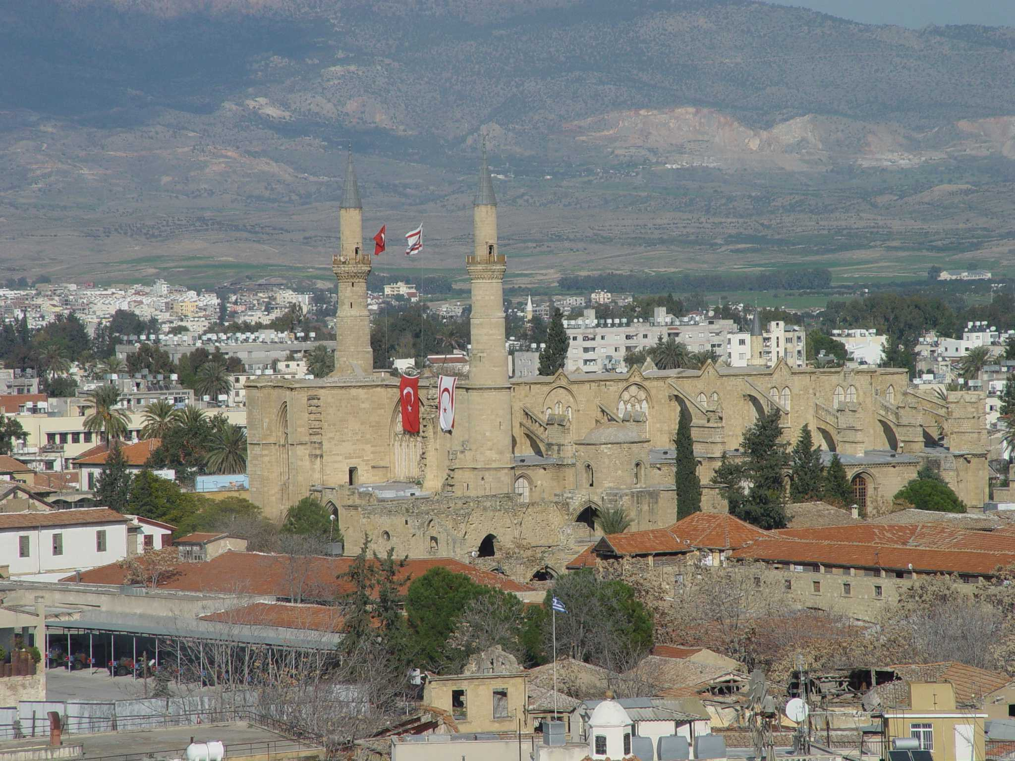 Former Cathedral of St. Sophia, now Selimiye Mosque in the northern sector of Nicosia, Cyprus